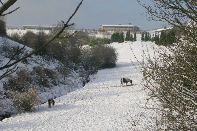 Phoenix Park Golf Course - viewed from Daleside Road. Not a golf ball in sight!